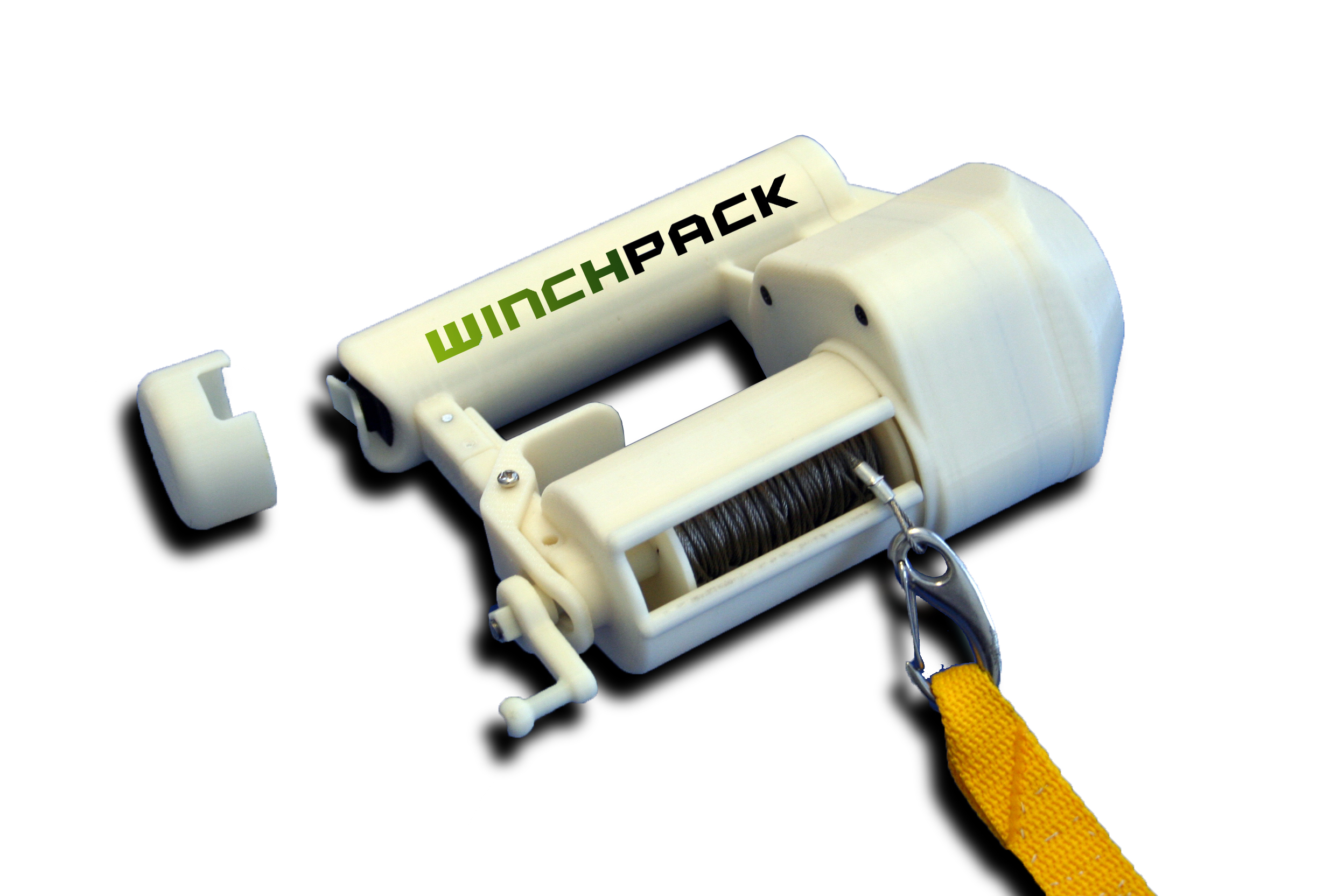 Winchpack battery operated Pocket winch